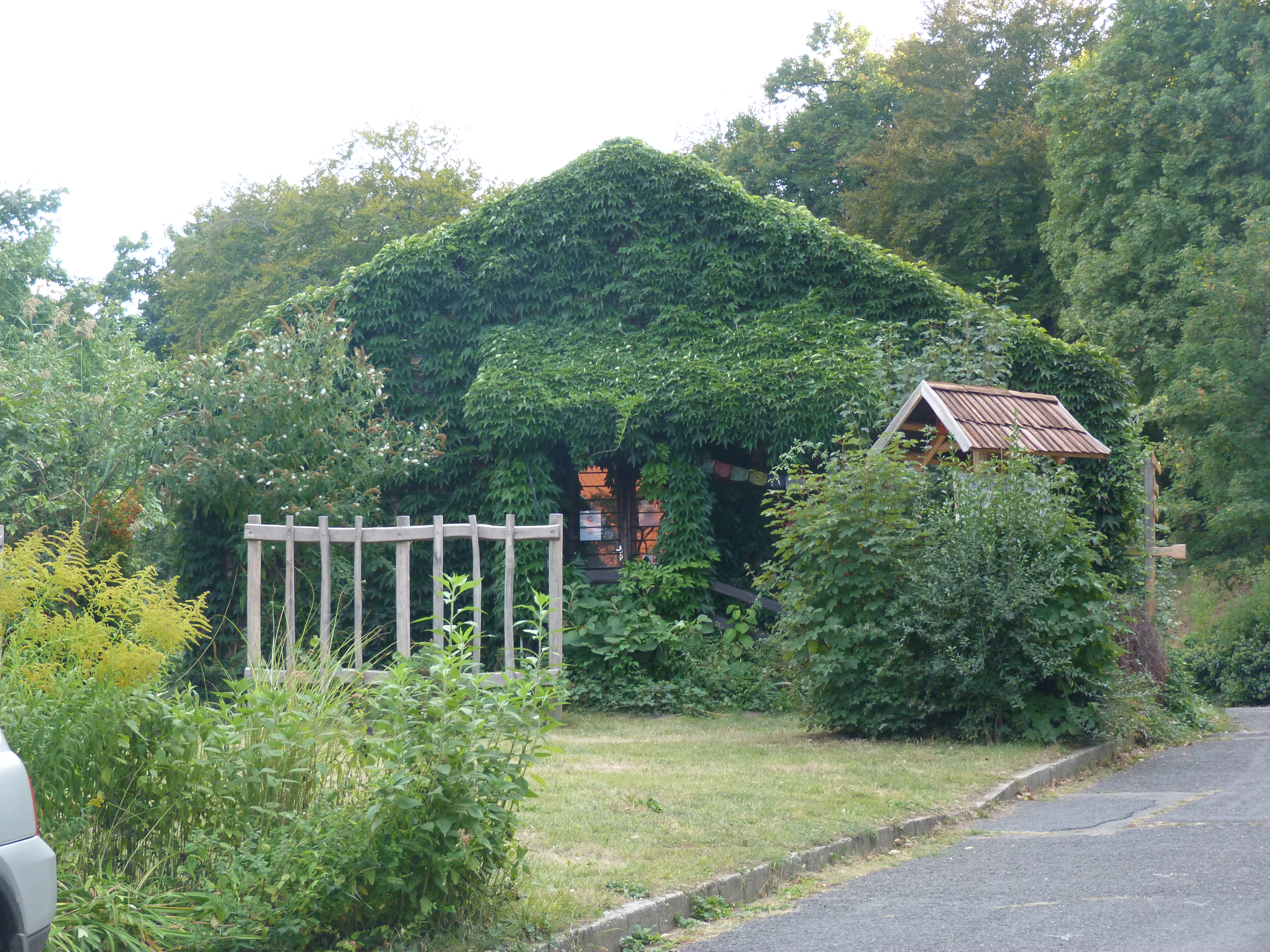 Mór Jókai’s garden in Költő utca, Svábhegy, Budapest, Hungary